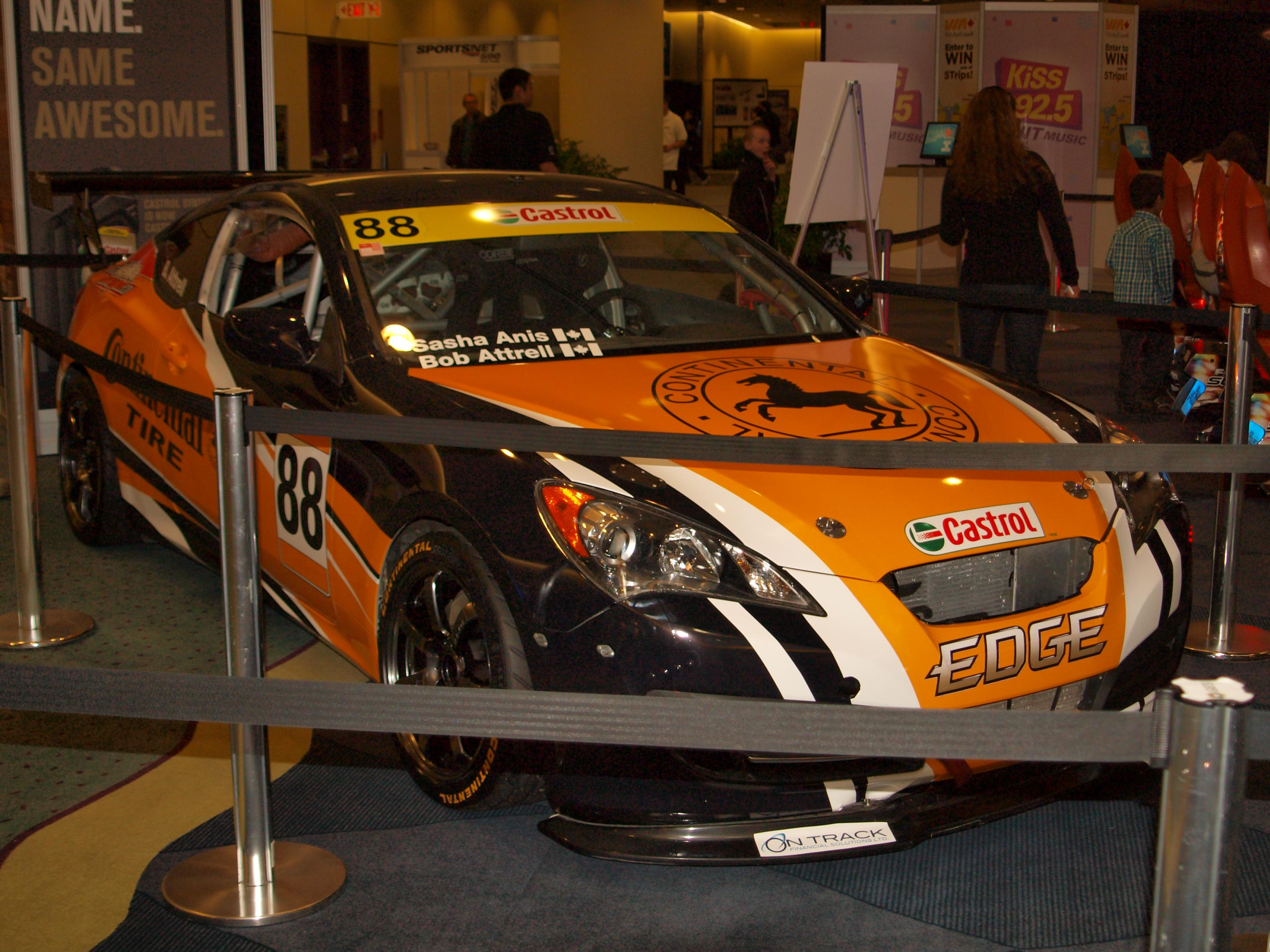 Hyundai Genesis Coupe Race Car - CIAS 2012